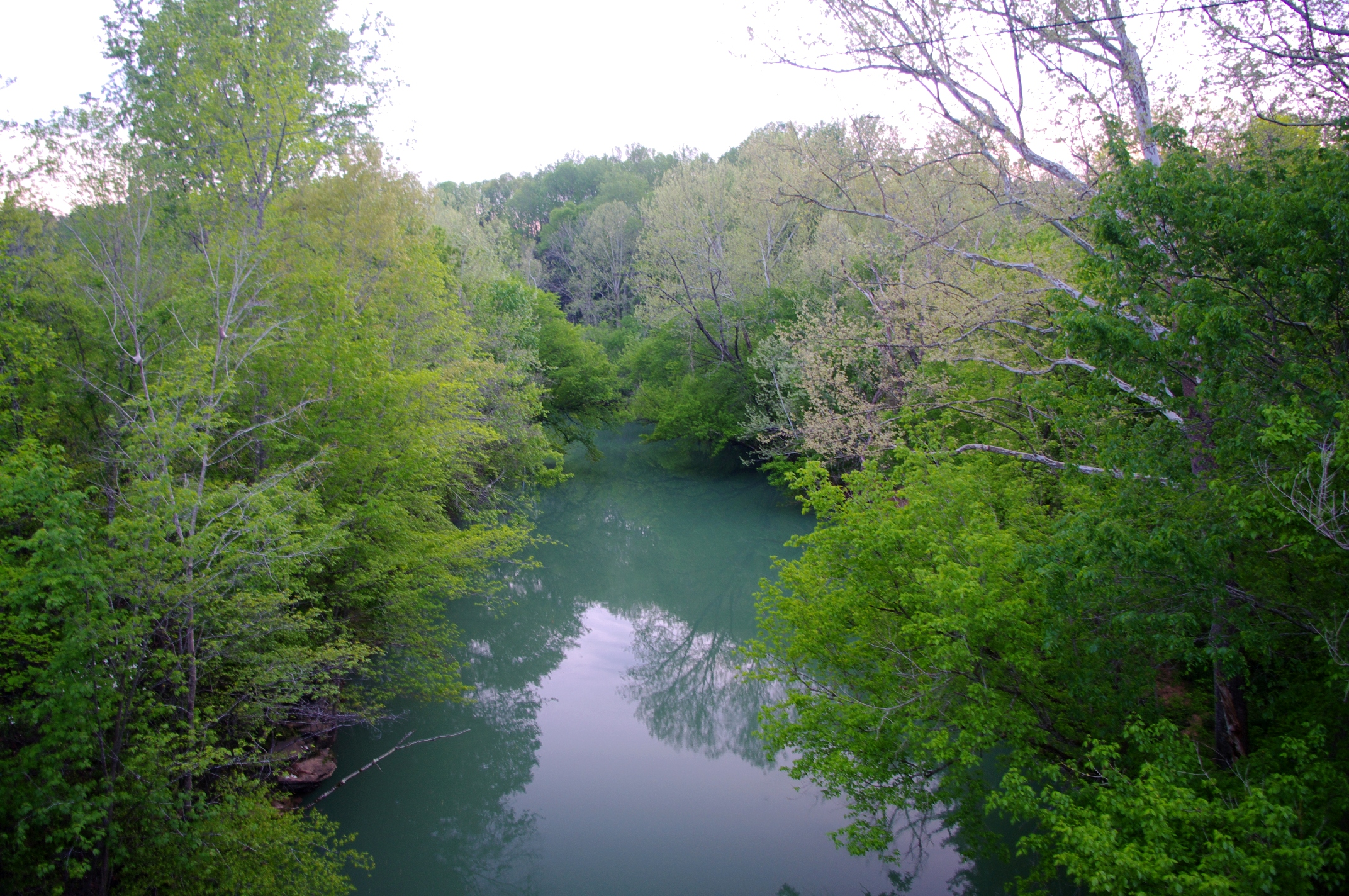 The Calfkiller River in White County, Tennessee, USA, viewed from the Highway 84 bridge near Sparta.